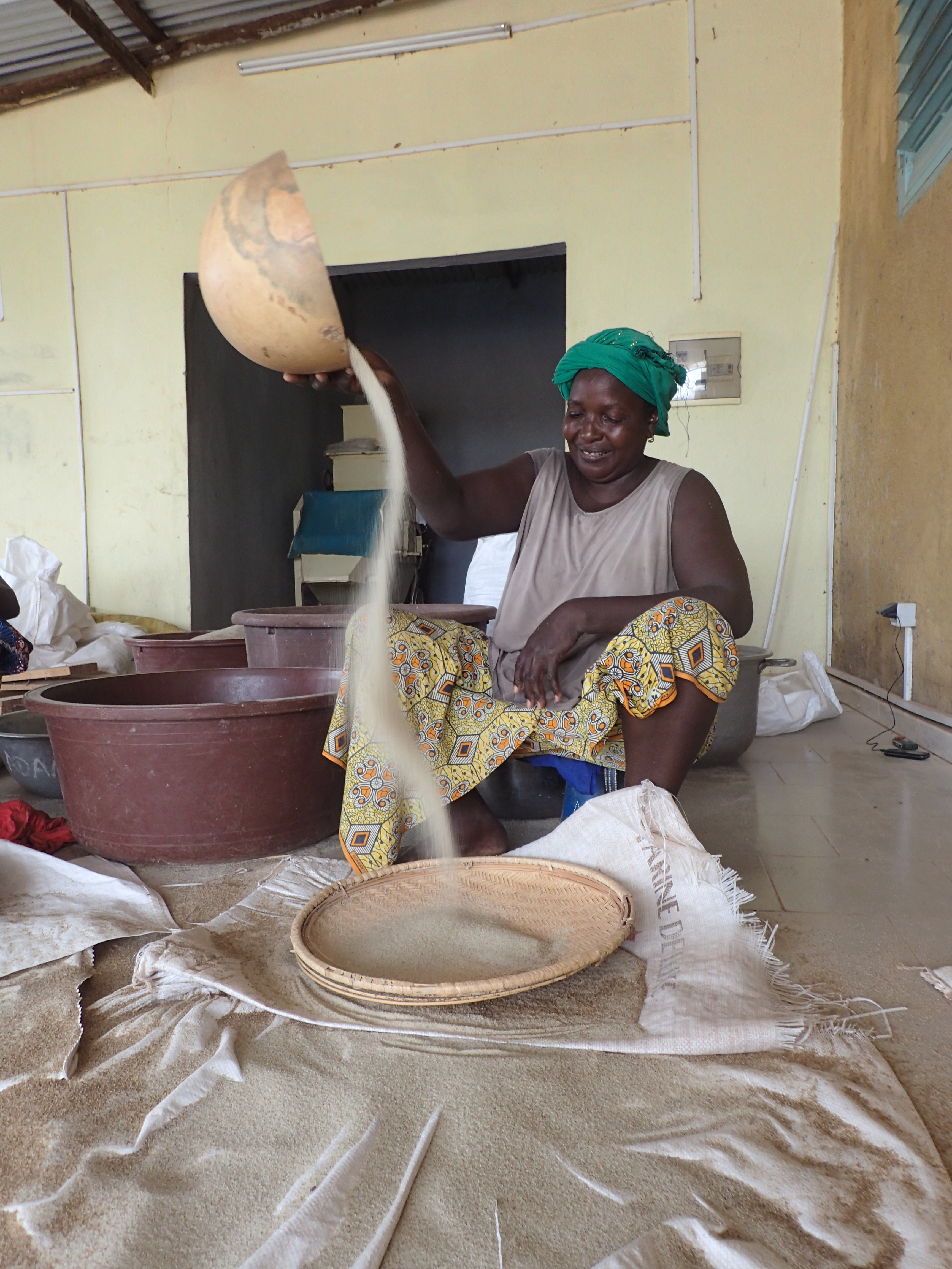 Dianabou Diallo winnows fonio in the Koba Club's processing facility in Kedouogu, Senegal. This is an image of "African people at work" from Senegal